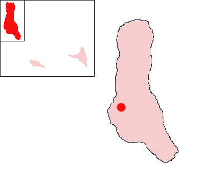 Mvouni, Grande Comore, Comoros Location Map; created with the GIMP. Made by User:Acntx.